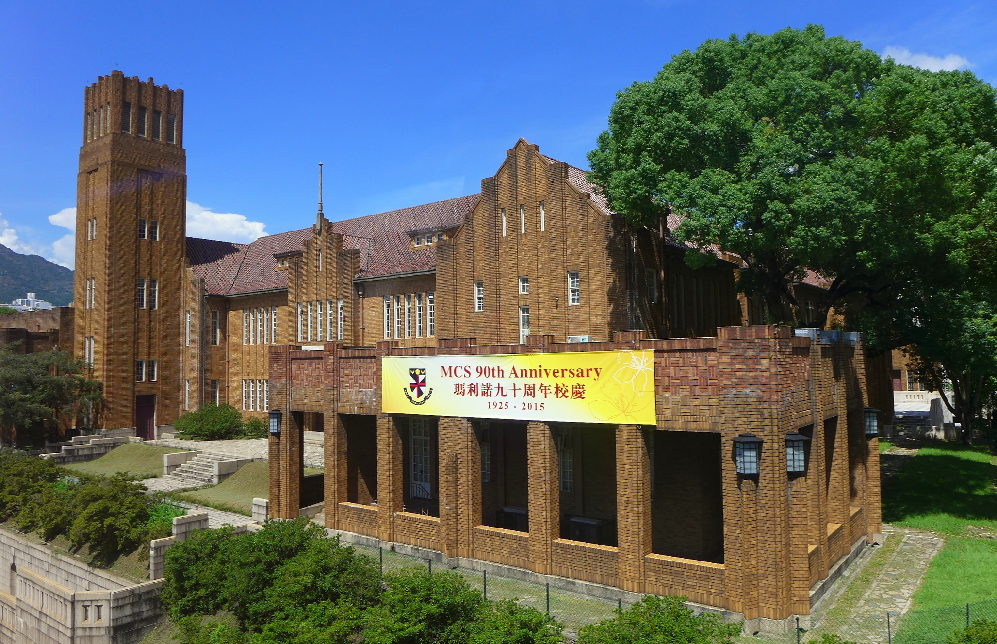 Maryknoll Convert School view